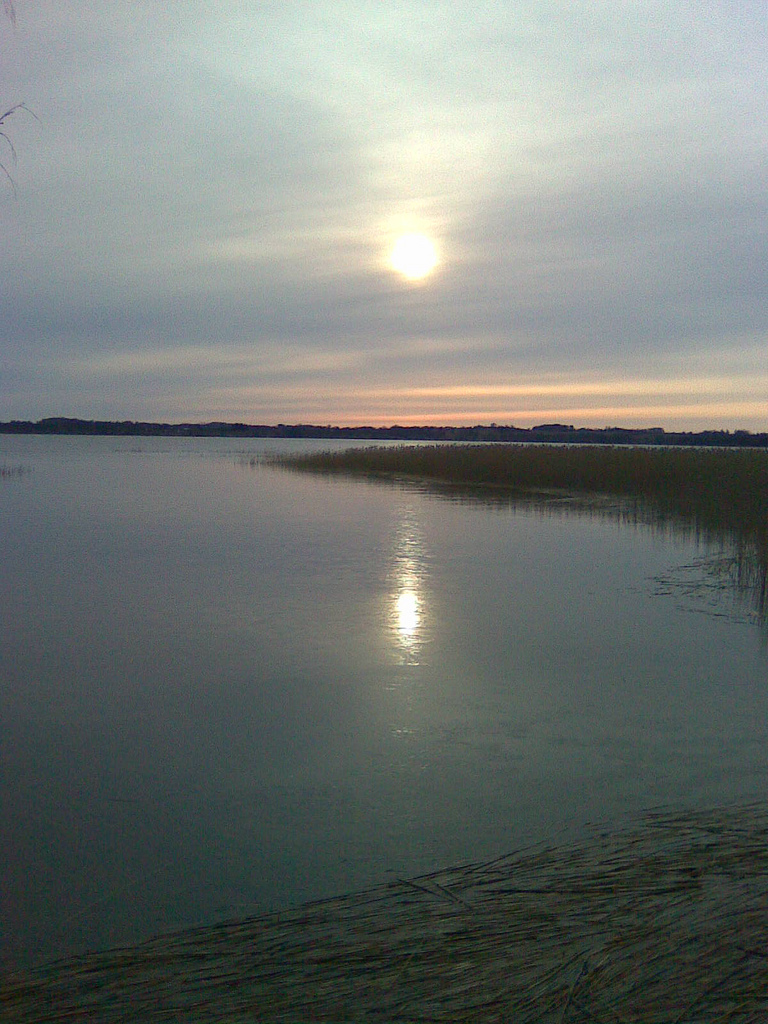 Alaušas lake in Lithuania, Utena district. View from north side towards south